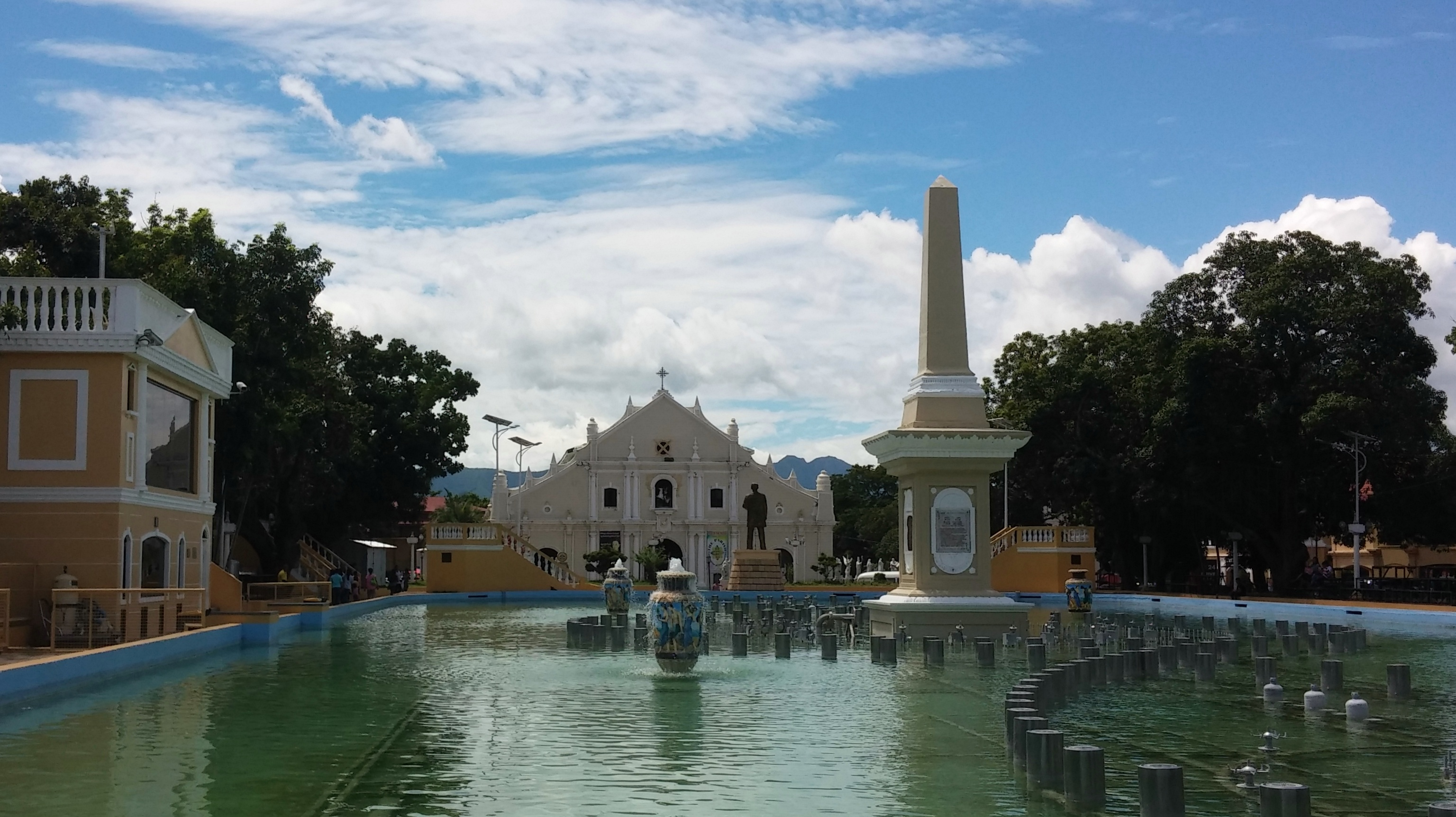 Plaza Salcedo, Vigan, Ilocos Sur